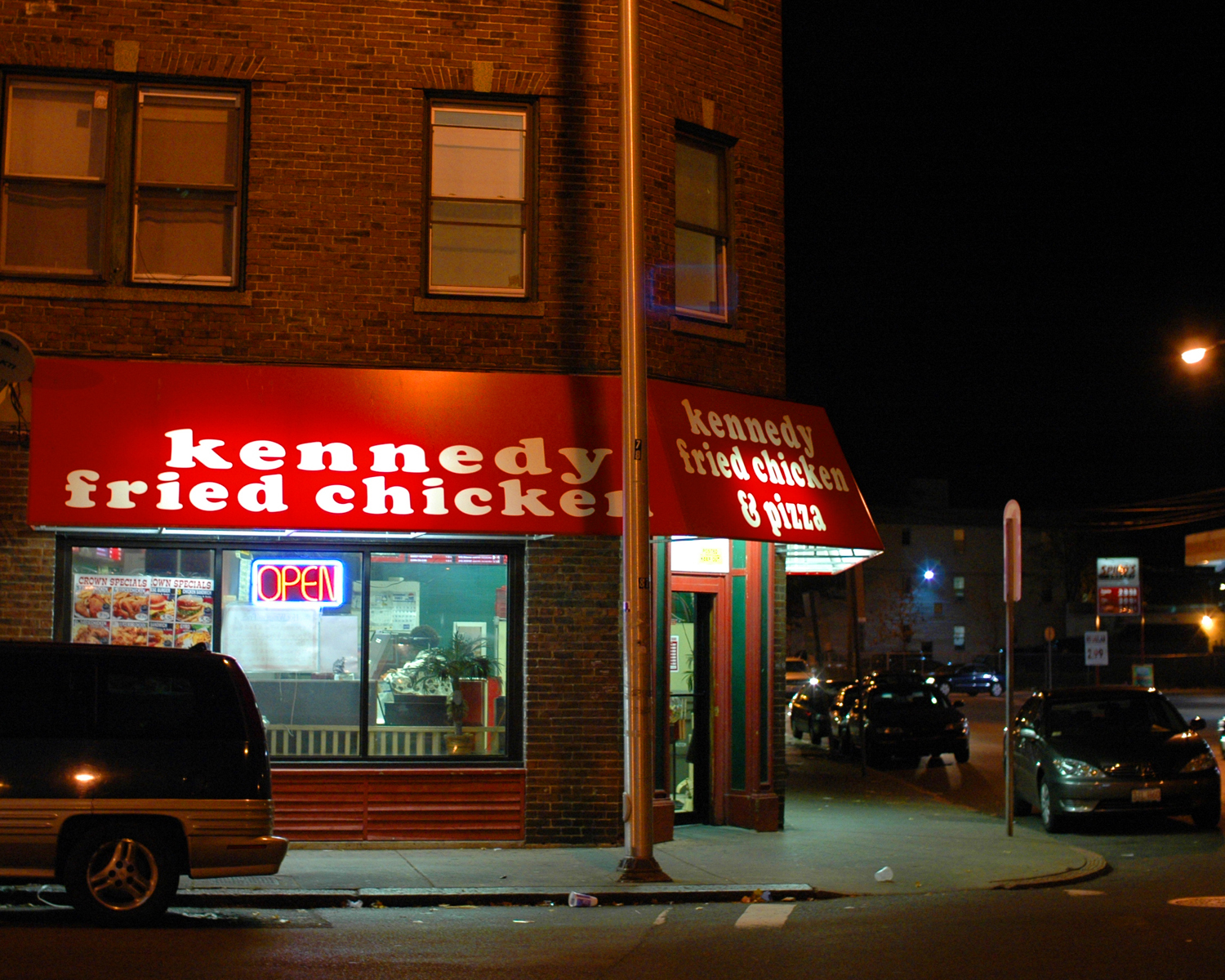 Kennedy Fried Chicken in East Lynn, Massachusetts.